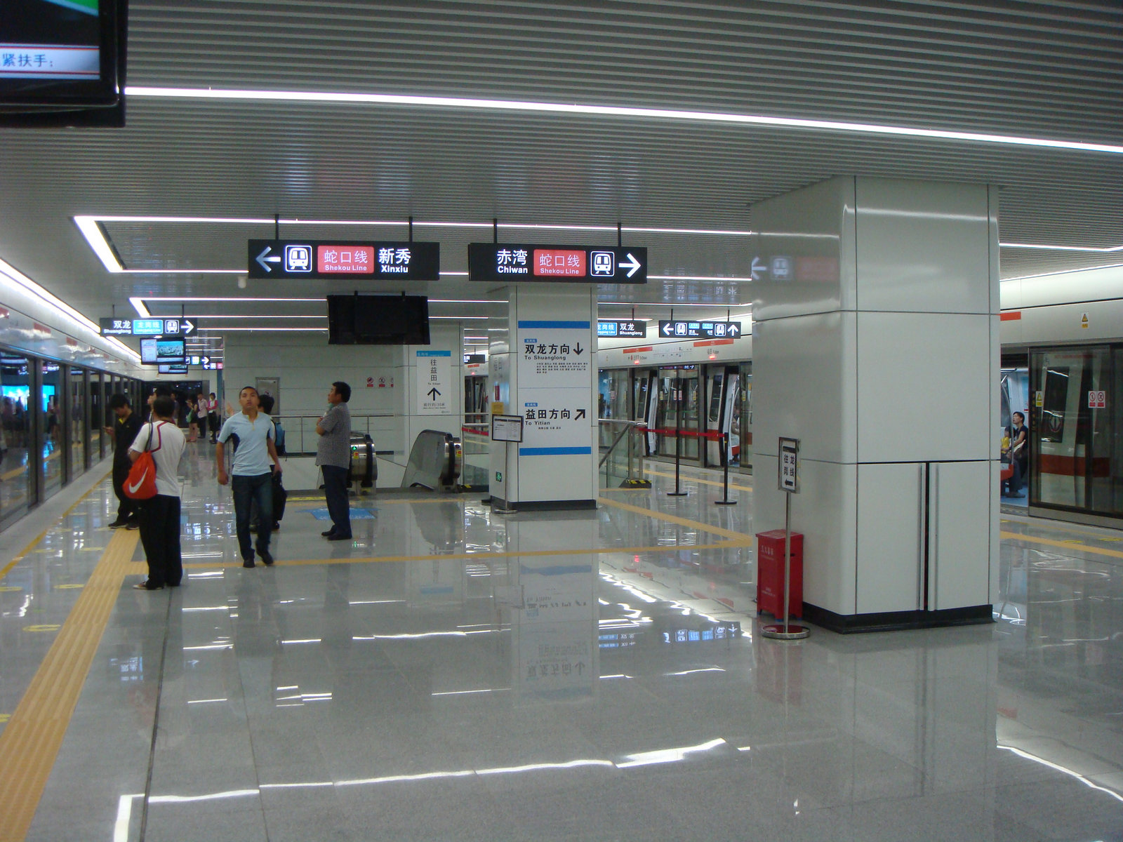 Futian Station of Shekou Line, Shenzhen Metro.